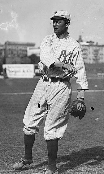 American baseball outfielder Guy Zinn at Hilltop Park, NY.